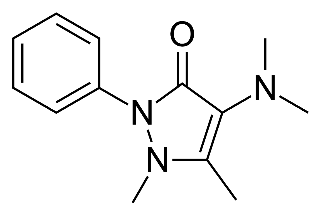 2D-structure of aminophenazone